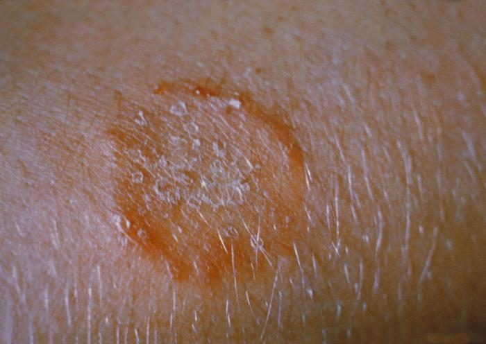 ID#: 2938 Description: This patient presented with ringworm on the arm, or tinea corporis due to Trichophyton mentagrophytes. The genus Trichophyton inhabits the soil, humans or animals, and is one of the leading causes of hair, skin and nail infections, or dermatophytosis in humans. Content Providers(s): CDC/Dr. Lucille K. Georg Creation Date: 1964 Copyright Restrictions: None - This image is in the public domain and thus free of any copyright restrictions. As a matter of courtesy we request that the content provider be credited and notified in any public or private usage of this image.